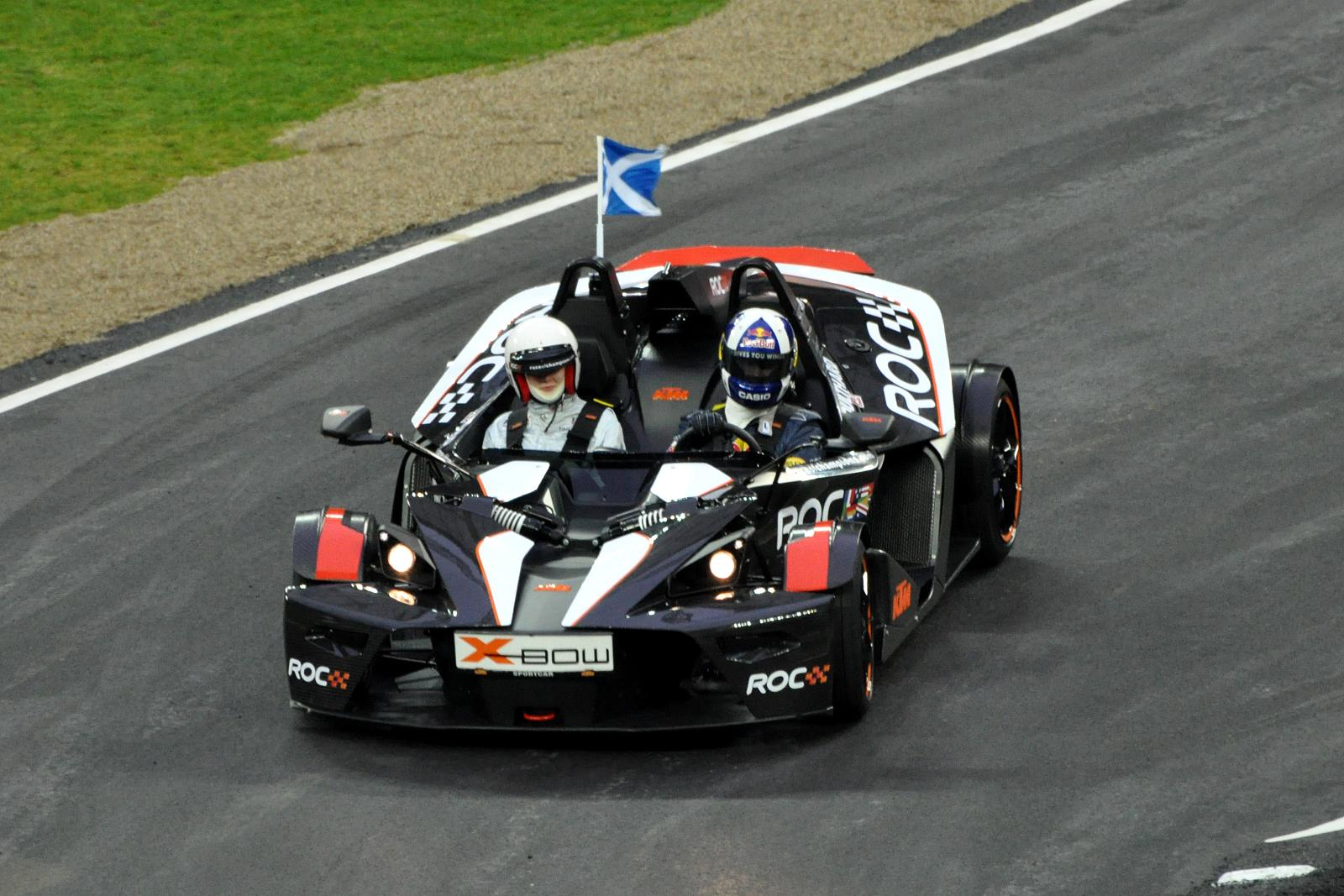 David Coulthard driving KTM X-Bow at 2008 Race of Champions, Wembley Stadium